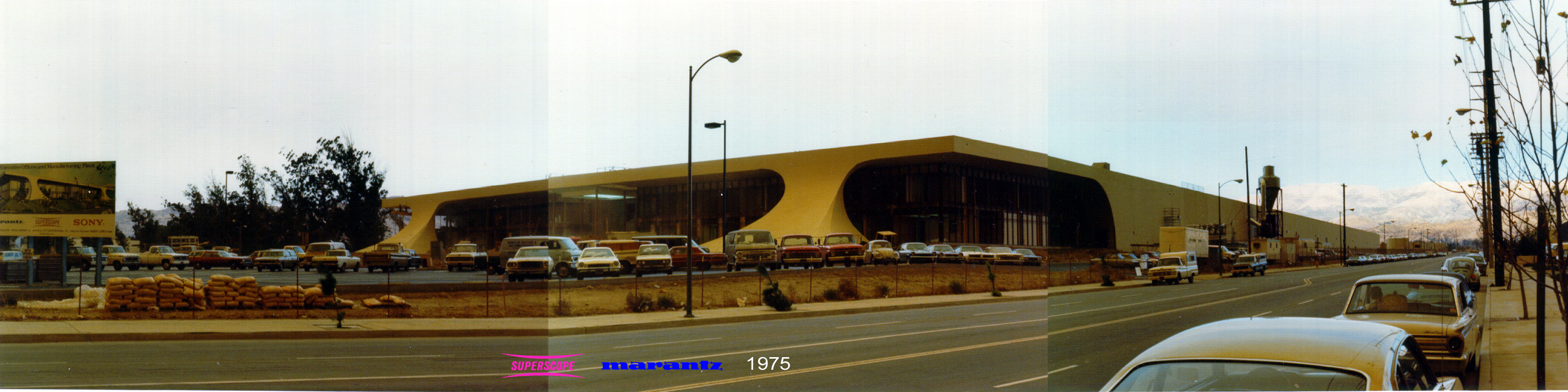 Marantz USA 1975